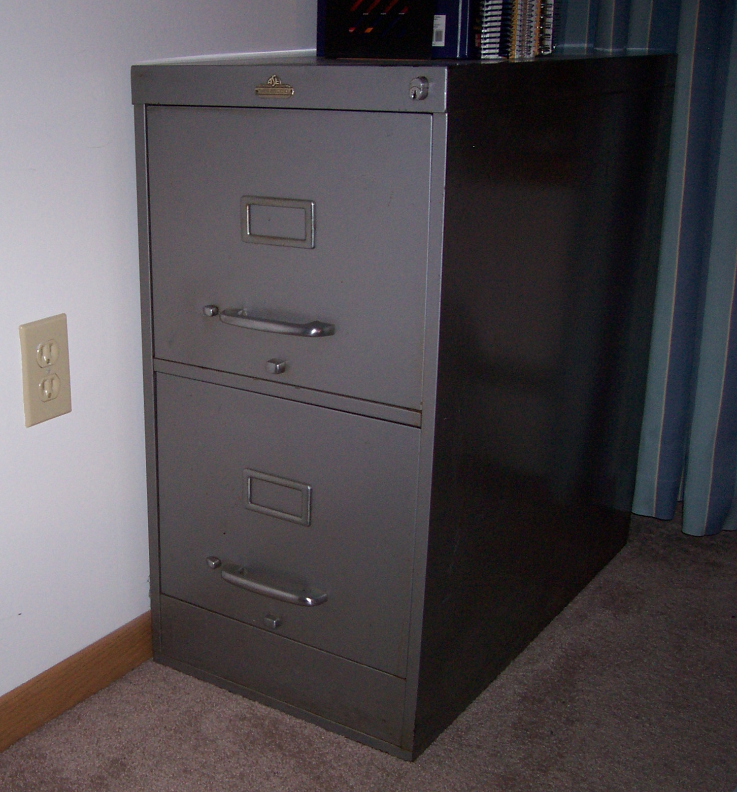 This is an image of an All-Steel Equipment file cabinet that I own. I don't know its exact date of production, but it is before 1973 (based on the logo).